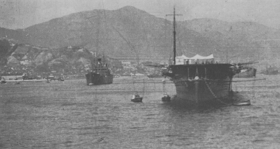 Imperial Japanese Navy aircraft carrier Hōshō (right foreground) in an unidentified port in Japan after its return from the Battle of Midway.